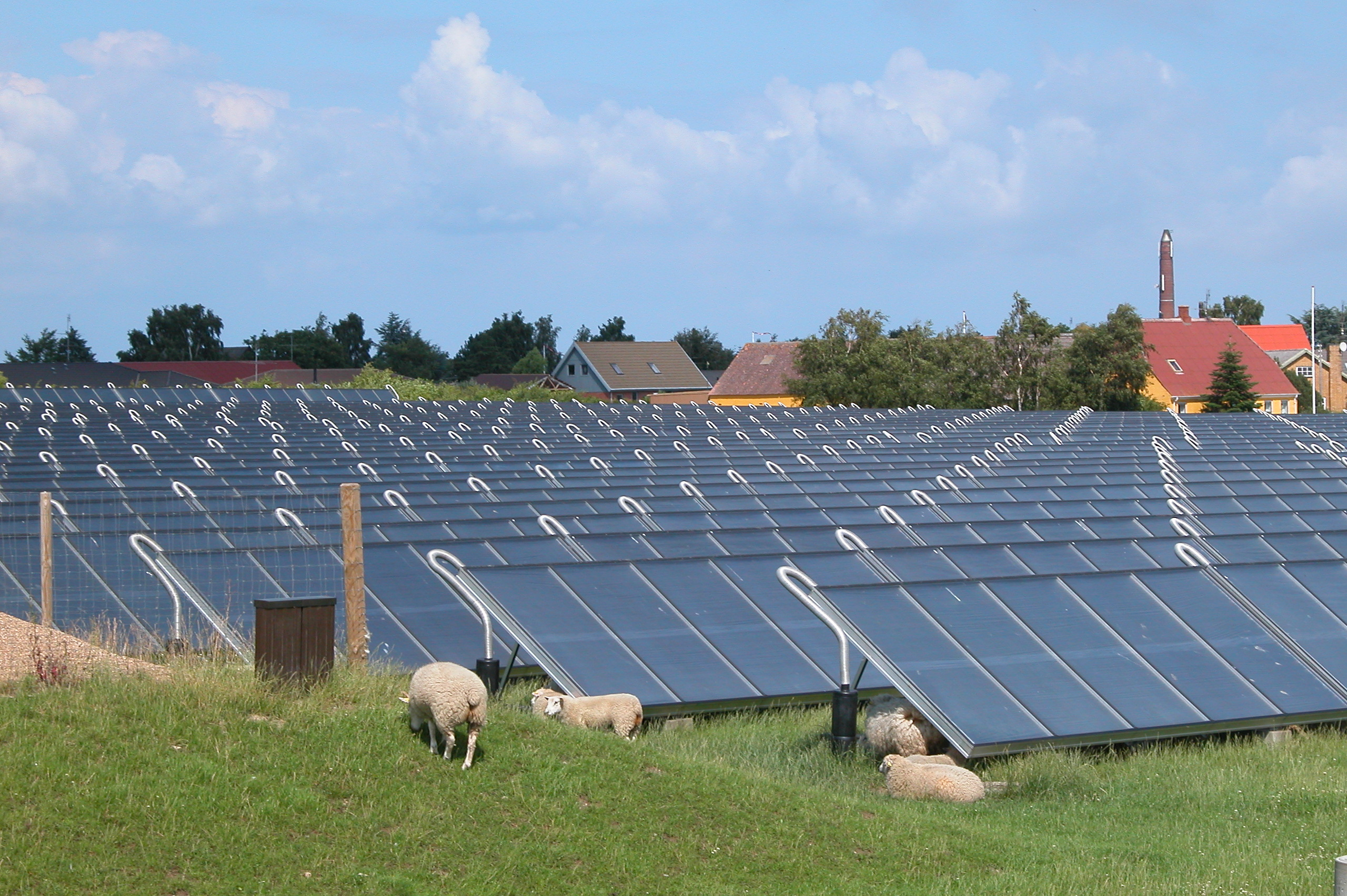 Marstal Solar power plants, have a area of 18,365 m². It covers a third of Marstal's power consumption